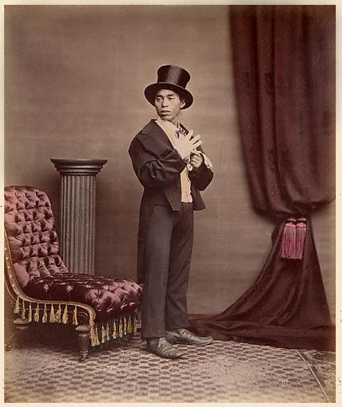 tinted albumen print Details